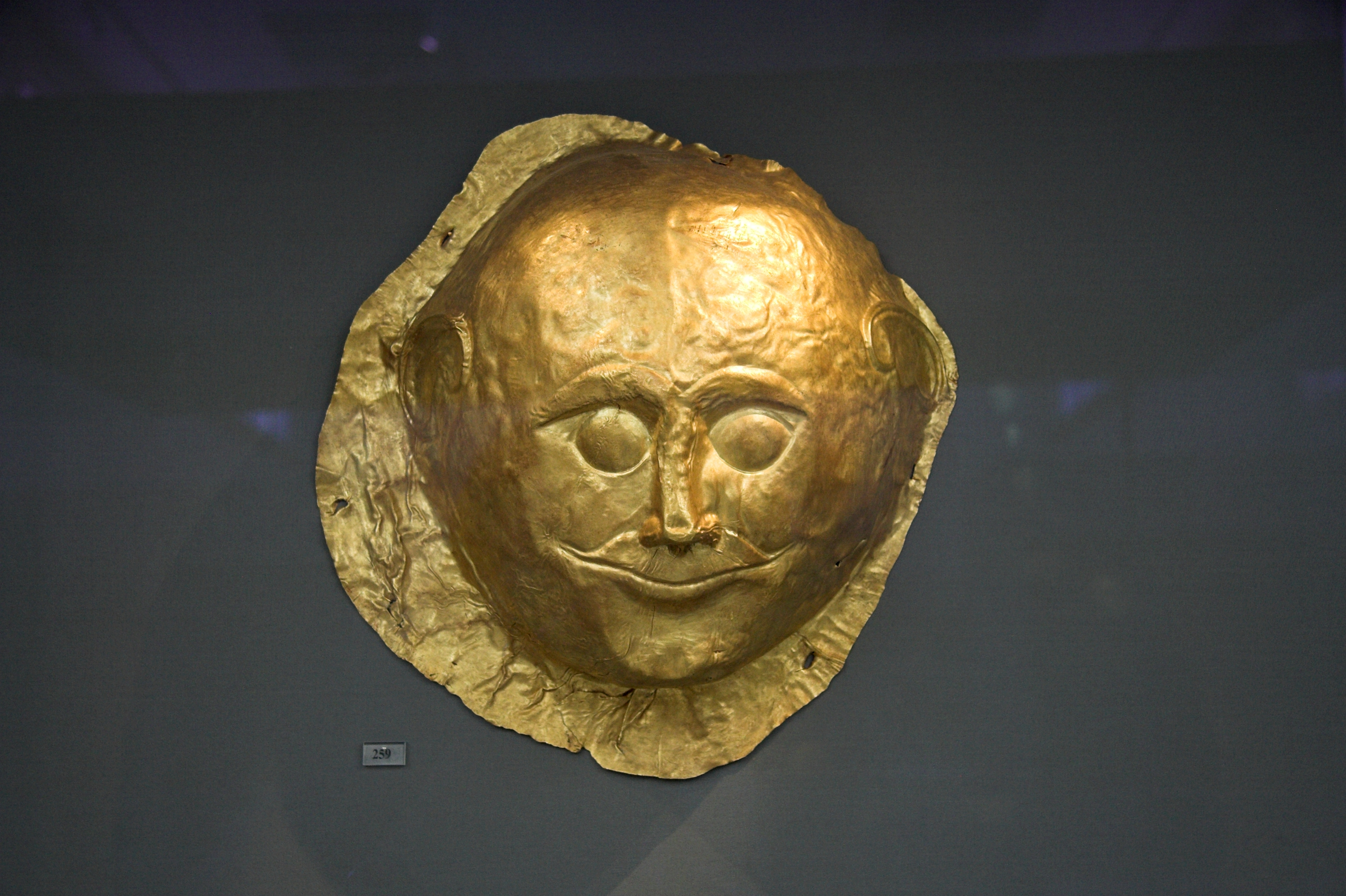 Funeral mask from Mycenae, the shaft grave IV, gold plate, 16 century BC. National Archaeological Museum of Athens.